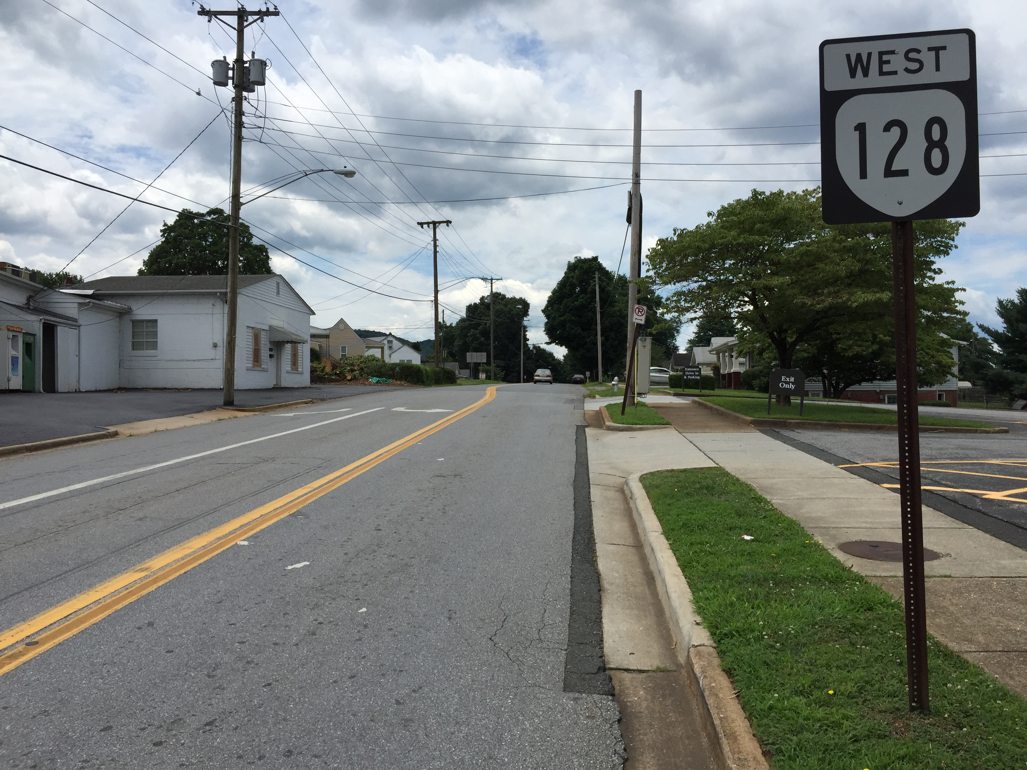 View west along Virginia State Route 128 (Mayflower Drive) at U.S. Route 460 Business and U.S. Route 501 Business (Campbell Avenue) in Lynchburg, Virginia